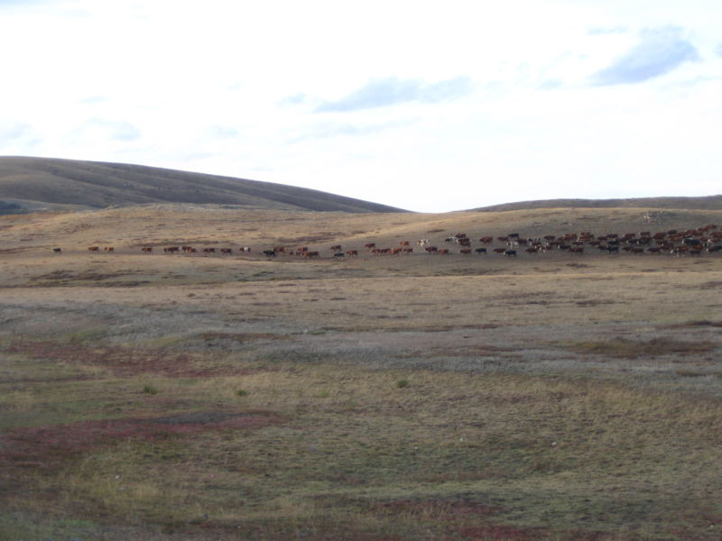 Qaraghandy Province Photo by Wassily Frese (??????? ?????) - from Russian Wikipedia.